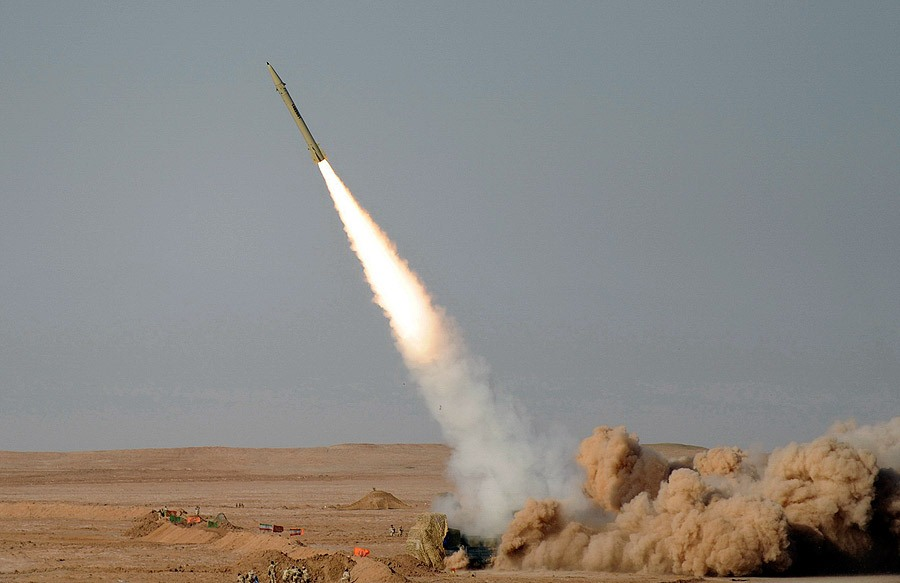 Fateh-110 Missile in Great prophet-7 military exercise. Fateh-110 is an iranian Ballistic single-stage solid-propellant, surface-to-surface missile